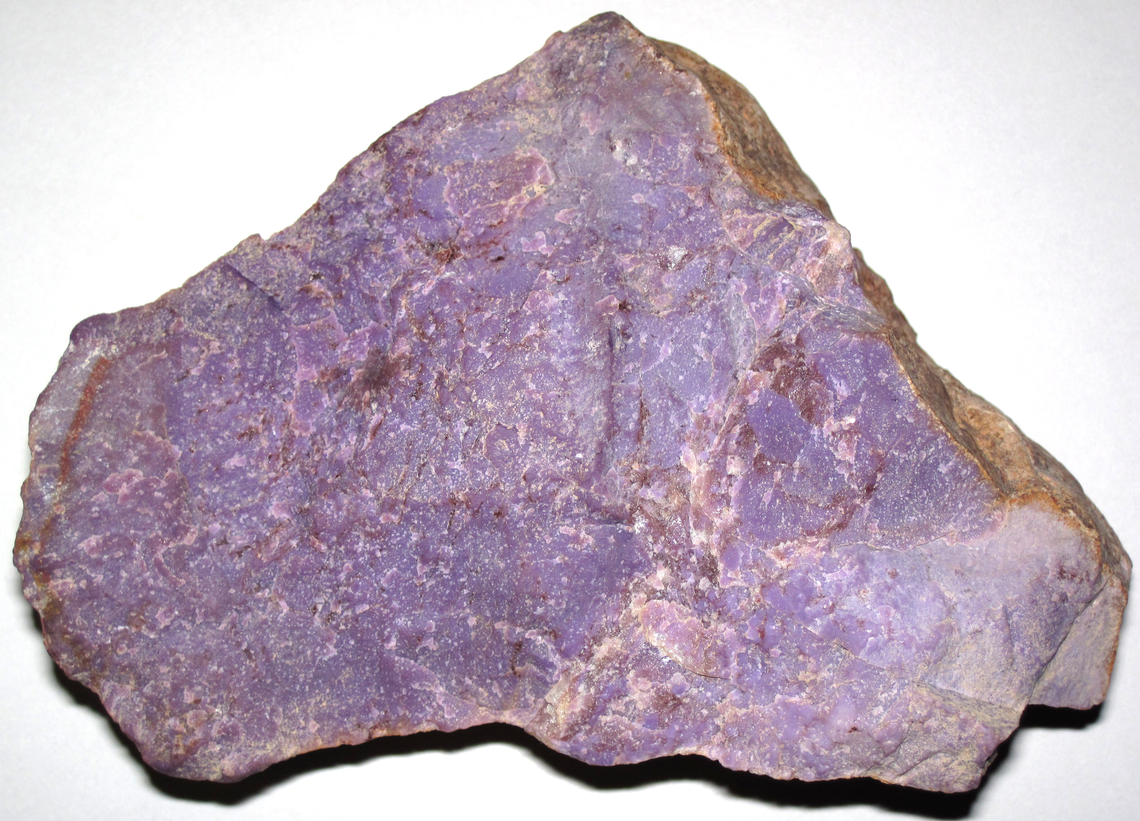 Purple jade (= finely-crystalline jadeite-K-feldspar-lawsonite-aegerine metamorphite) (10.2 cm across at its widest) - blueschist facies metaphonolite from Bursa Province (probably near Akpinar in southern Bursa Province), northwestern Turkey. Purple or lavender-colored jade is very rare. Such rocks are known from Burma, Turkey, and parts of Central America. Purple jade from Turkey is a polymineralic metamorphic rock with a complex origin. Published research indicates that this material was originally Paleozoic- or Mesozoic-aged phonolite lava, an alkaline, intermediate, extrusive igneous rock. During the Late Cretaceous, at about 80 Ma, blueschist facies metamorphism (= high-pressure, low-temperature) altered the phonolites into rocks dominated by jadeite pyroxene, potassium feldspar, lawsonite, and aegerine pyroxene, with minor monazite, phengite, and secondary sericite. During the Cenozoic, tectonic uplift, surficial exposure, and paleoerosion of these blueschist-facies rocks resulted in them being incorporated in landslide deposits (debris flow breccias). Turkish purple jade is collected as loose paleoclasts eroded from these Middle Miocene debris flow breccias.